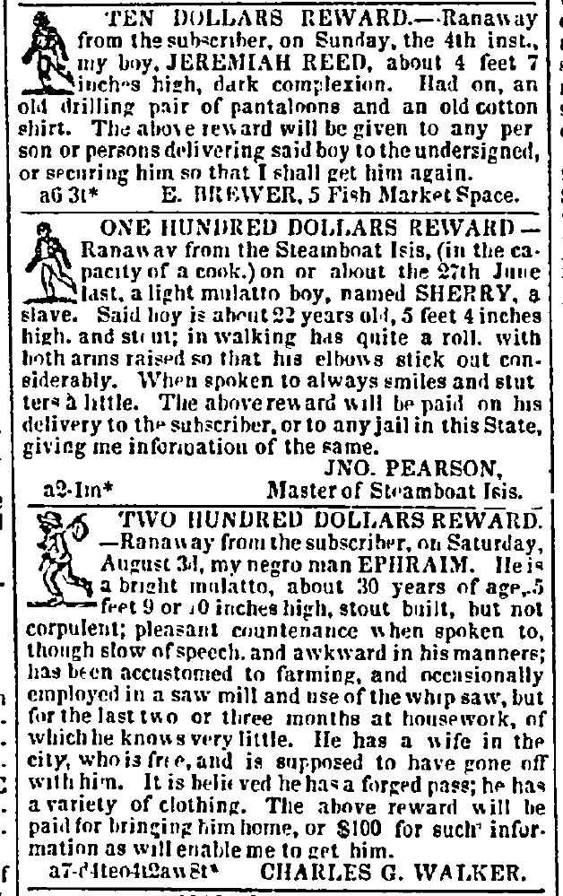 Rewards for runaway slaves published in The Baltimore Sun on 8 August 1839.